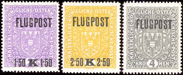 Stamps of K.K. Austria with modified colour, overprinted for airmail flight, issue 30 March to 24 June 1918. Michel N°225-227